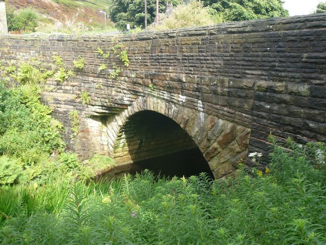 Dunford Bridge The bridge carrying Windle Edge Road over the River Don.